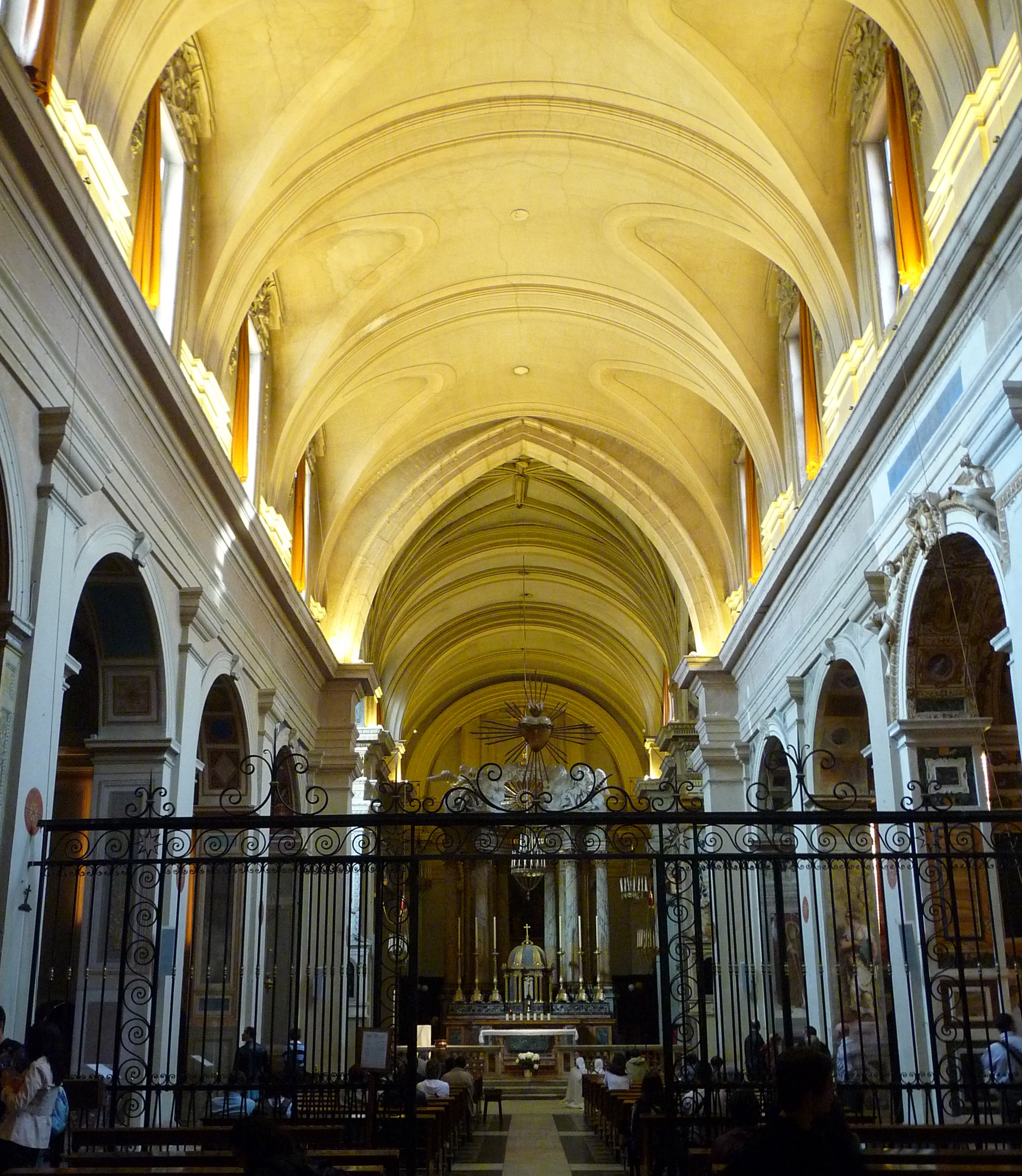 Trinità dei Monti (Rome) - interior